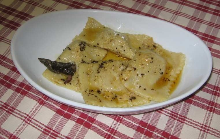 Esino Lario.